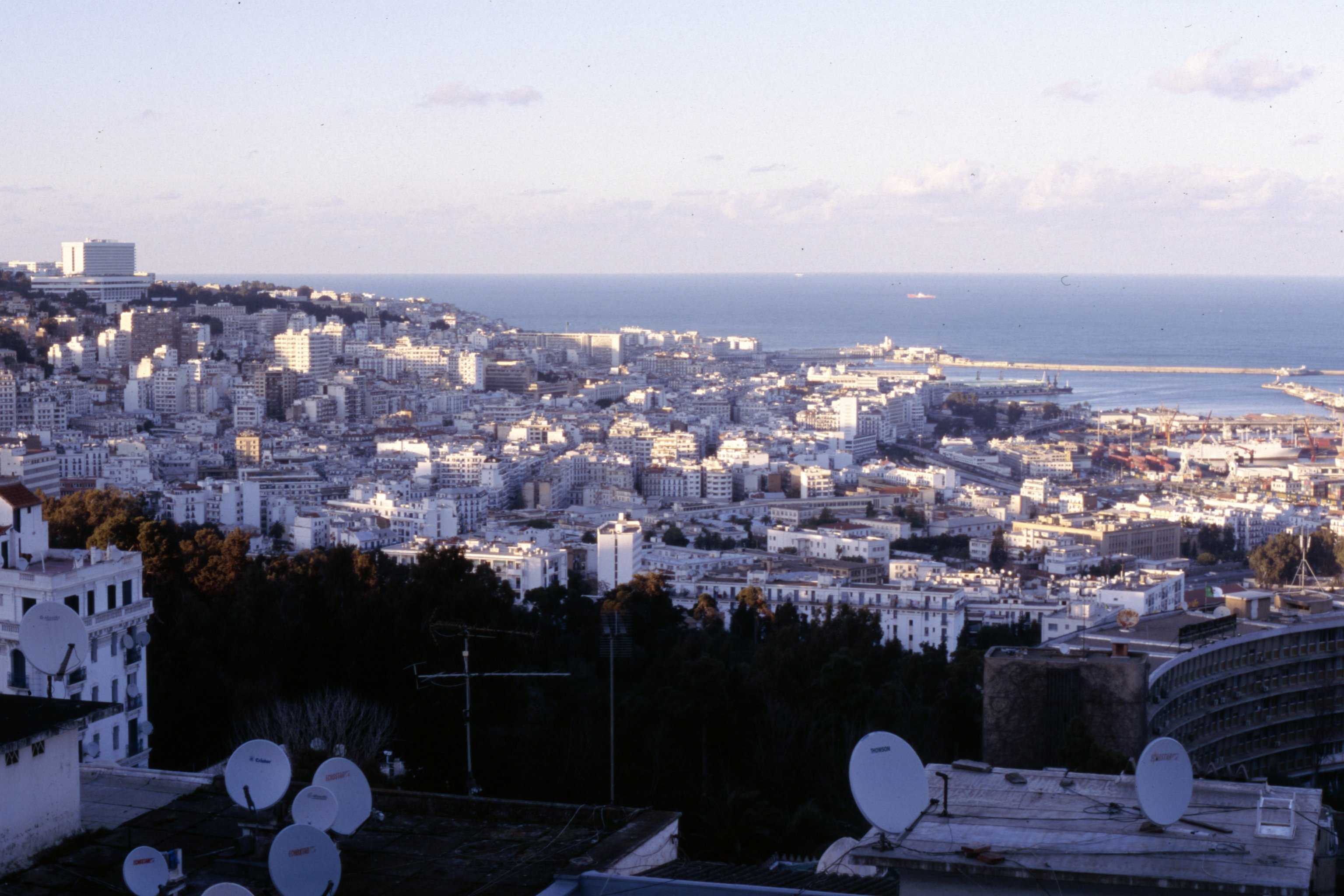 View of Algiers (Algeria) from Musee du Bardo